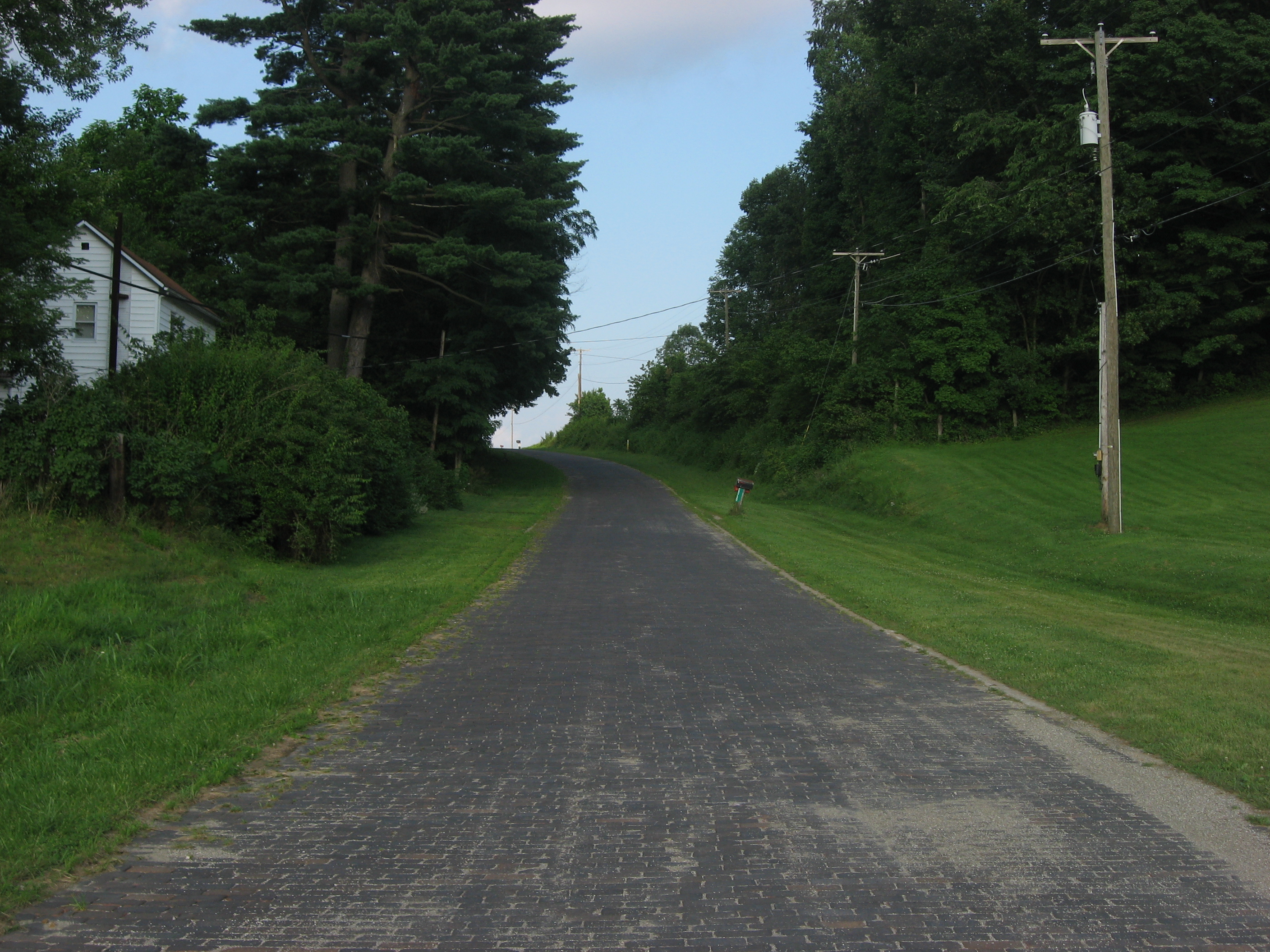 Looking eastward along Enterprise-Iles Road west of Logan in Falls Township, Hocking County, Ohio, United States. Built in 1922, the road itself is listed on the National Register of Historic Places.